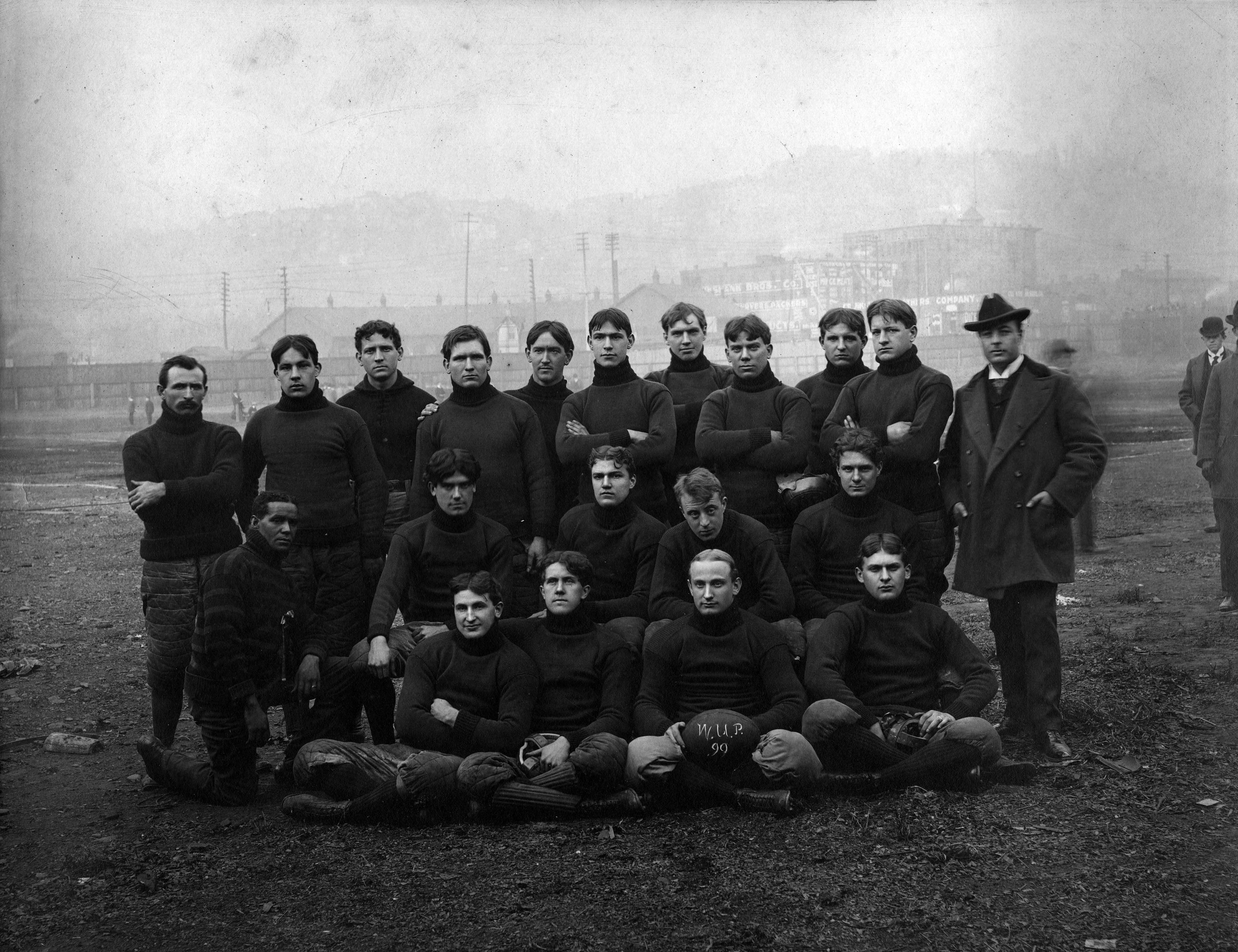 1899 WUP football team at Recreation Park in Allegheny City, PA. The two warehouse buildings in the right background still stand near Pennsylvania Avenue and Brighton Road. To the left of those is the semicircular roundhouse (since demolished) of the Pittsburgh, Fort Wayne and Chicago Railway.